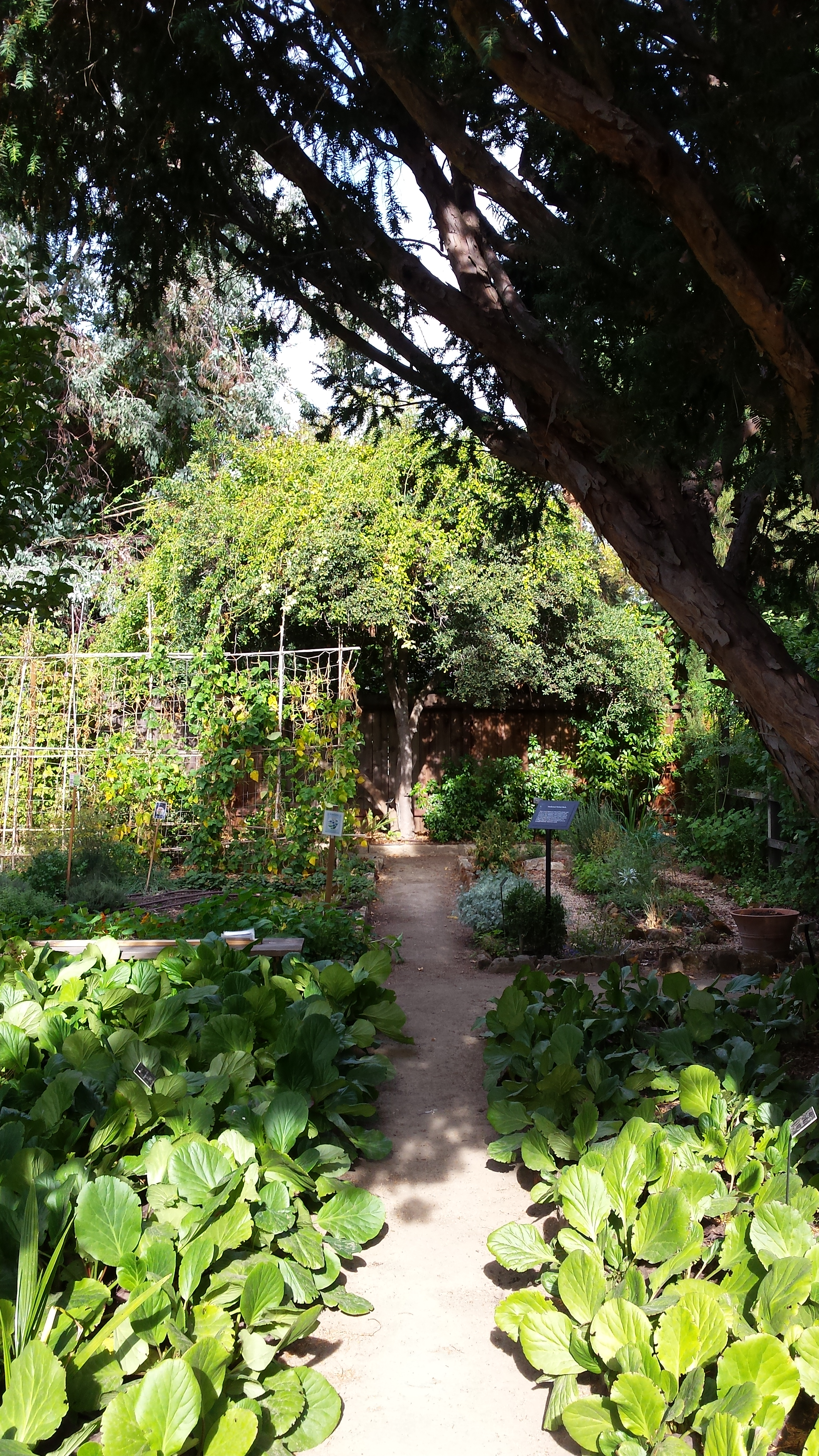 Path in the backyard garden at the Museum of American Heritage in Palo Alto, California